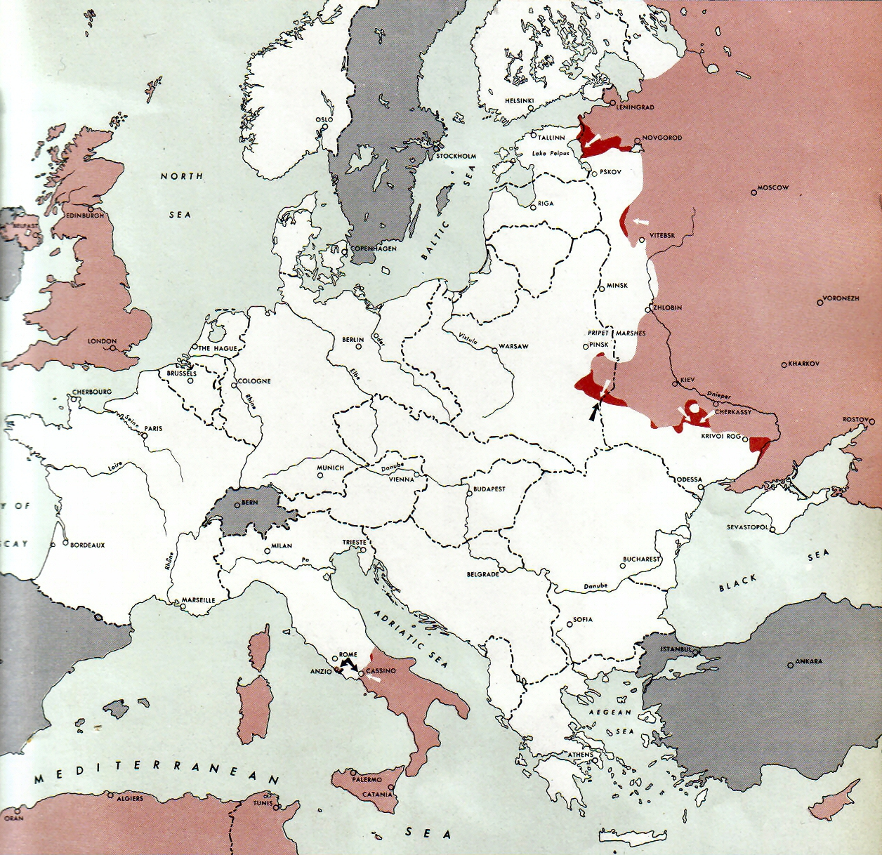 Map of the front against Germany: This map is taken from the source "Atlas of the World Battle Fronts in Semimonthly Phases to August 15th 1945: Supplement to The Biennial report of The Chief of Staff of the United States Army July 1, 1943 to June 30 1945 To the Secretary of War". (See Cover, Forward and Map details)